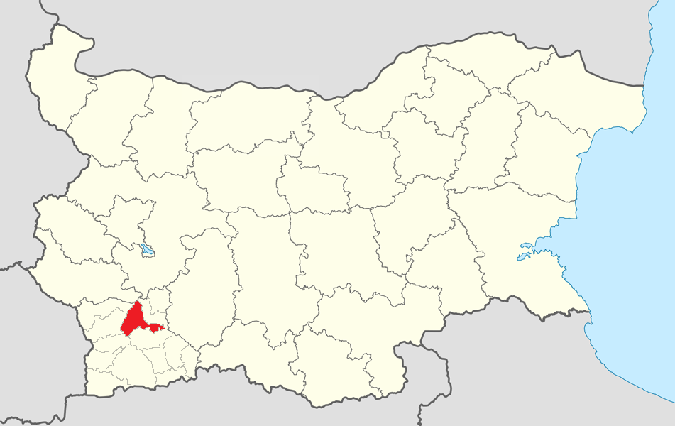 Location map of Razlog Municipality within Bulgaria and Blagoevgrad province